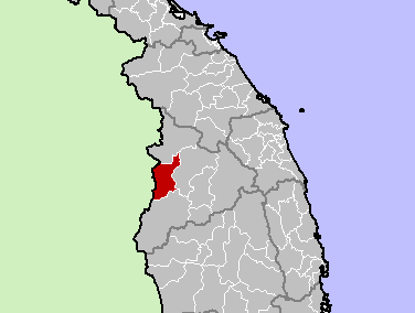 Ngoc Hoi District, Kon Tum Province, Vietnam.